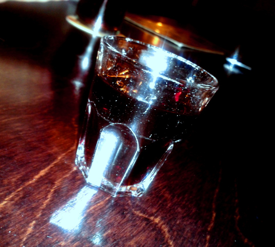 A shot of Riga Black Balsam Currant, in Riga.